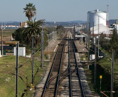 Riachos - Torres Novas - Golegã train station, in Portugal.